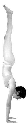 Mahá Kakásana - Inverted position